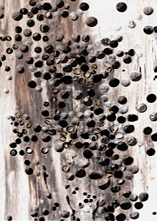 Little scallops on a wood trunk, Gabon, fot. Elżbieta Dzikowska